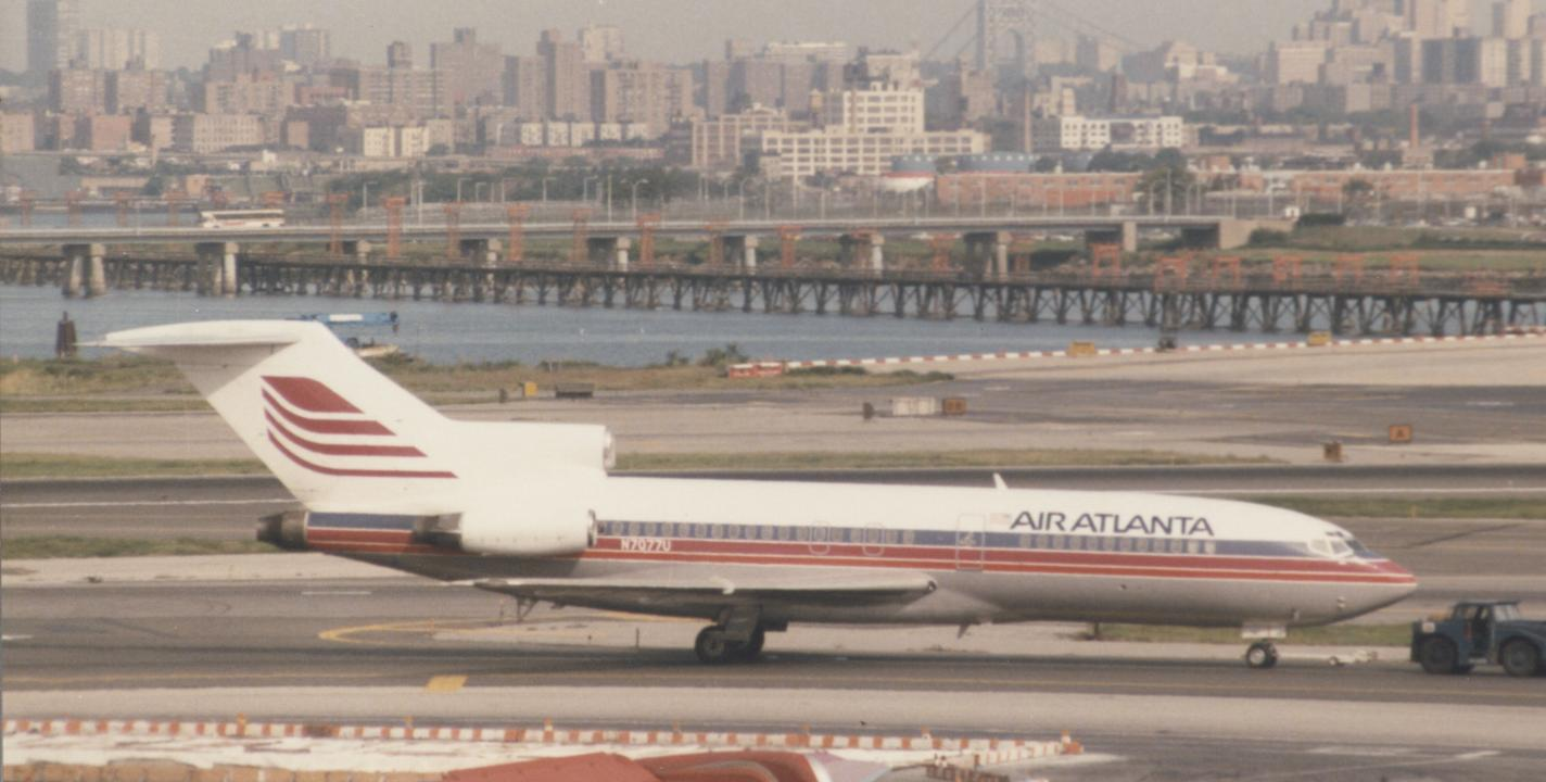 Air Atlanta Boeing 727-22 N7077U at La Guardia Airport New York